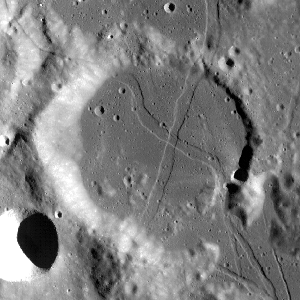 Crater Palmieri on the Moon, near Mare Humorum. Photo by Lunar Reconnaissance Orbiter, made with Wide Angle Camera on 16 November 2013 from altitude 52 km. Sun elevation is 17.2°. Width of the photo is 55 km, north is approximately up.